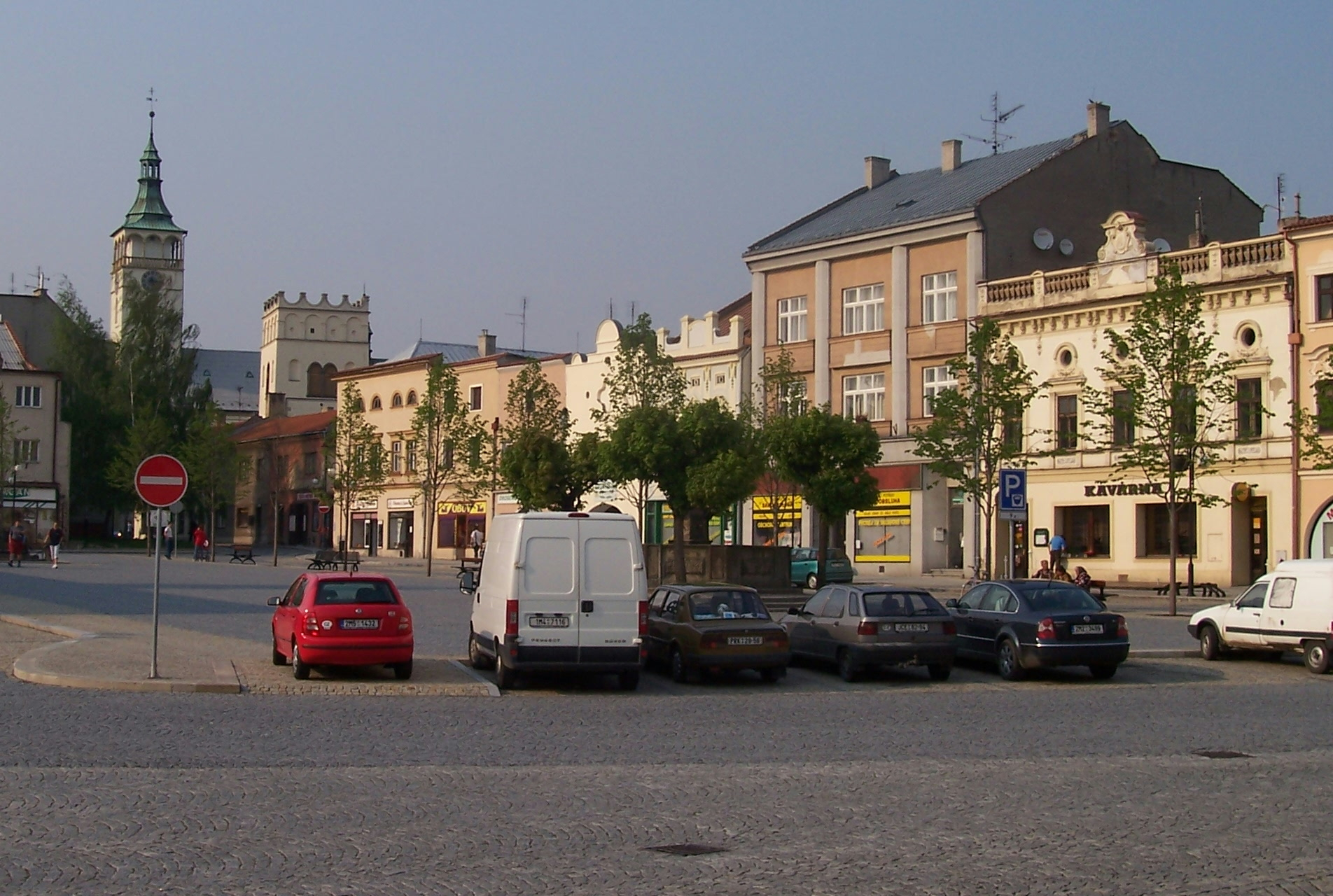 Lipník nad Bečvou in Přerov District, Czech Republic. Square.